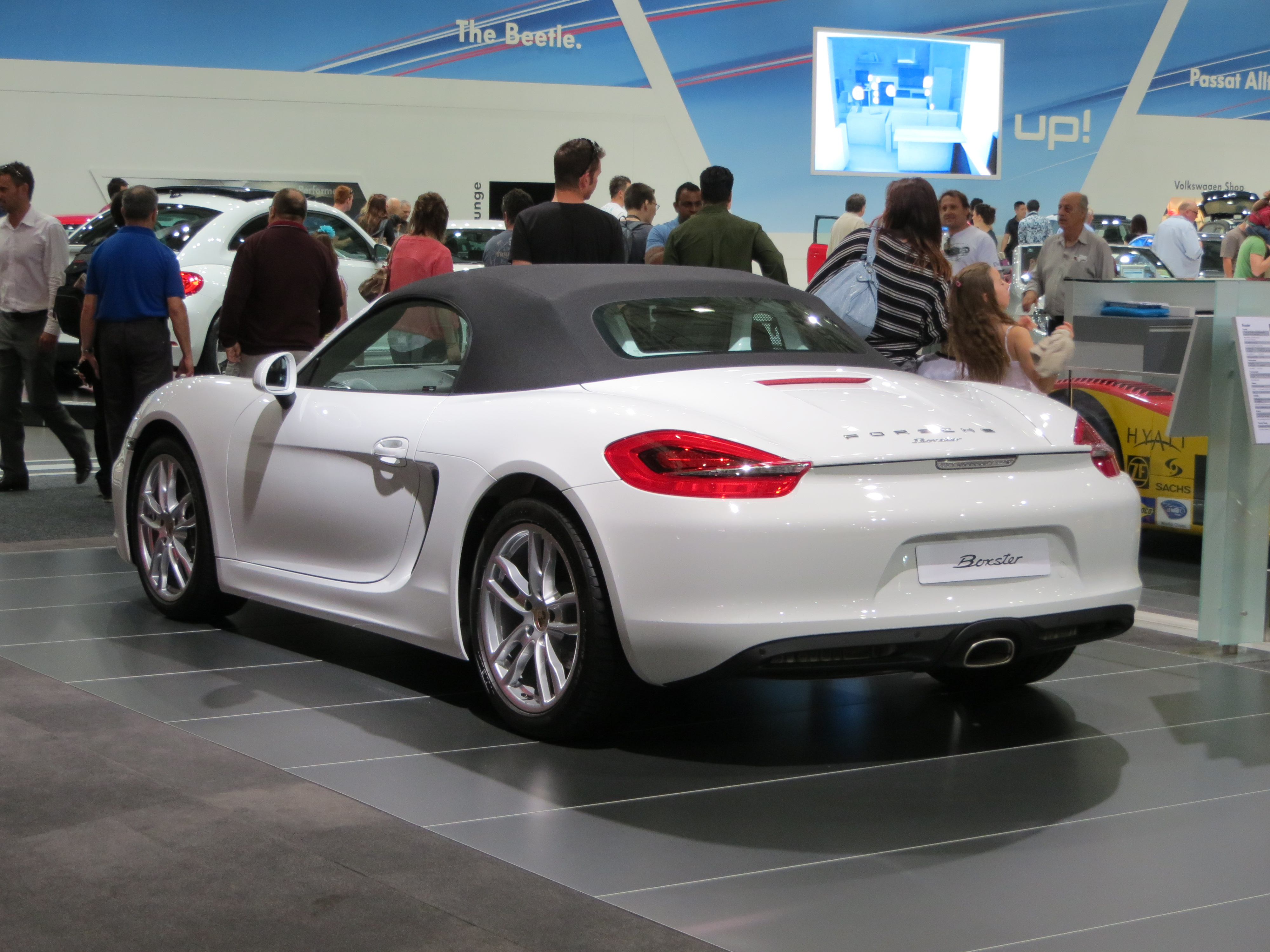 2012 Porsche Boxster (981) convertible. Photographed at the 2012 Australian International Motor Show, Sydney, New South Wales, Australia.